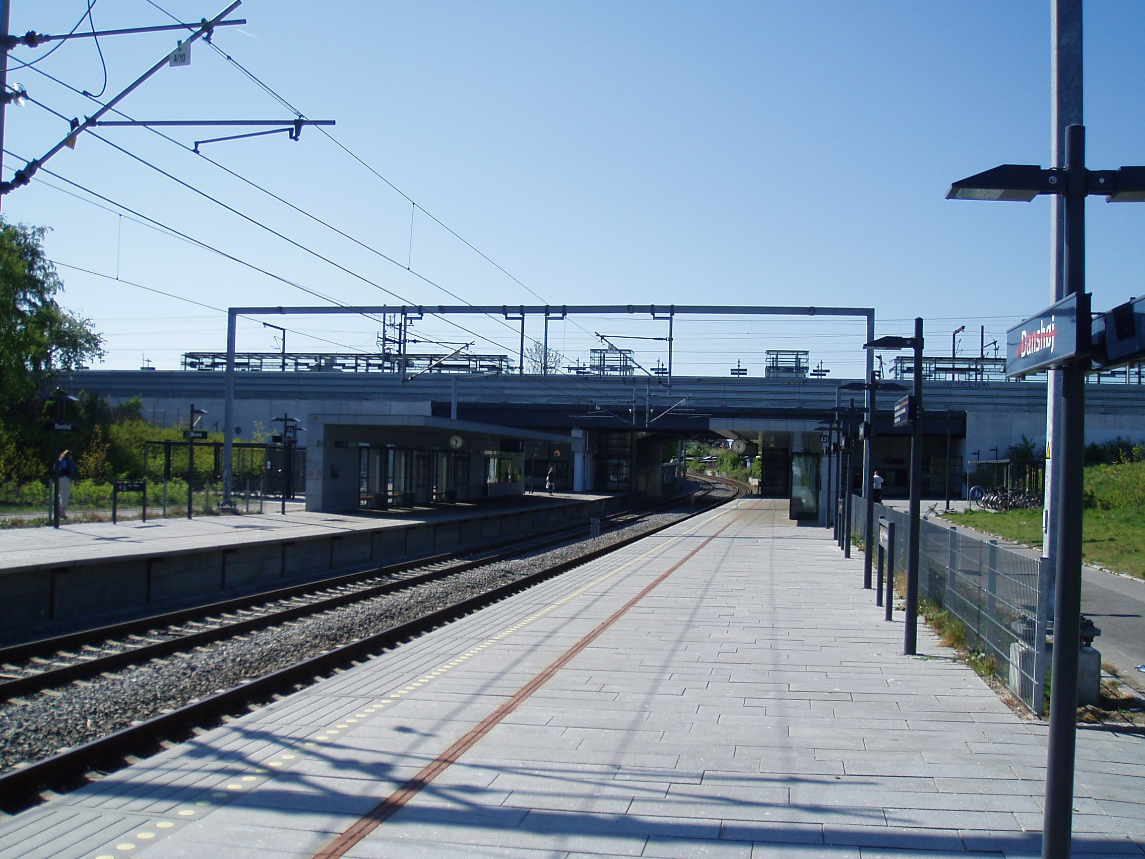 Ring line platforms at Danshøj S-train station. Seen in direction south towards the crossing of the Høje Tasstrup line above the Ring line.